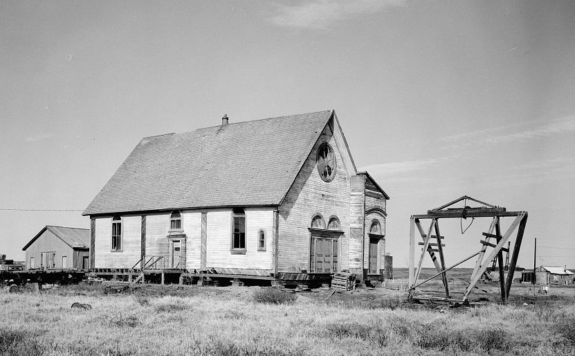 St. Joseph's Roman Catholic Church, Nome, Alaska.